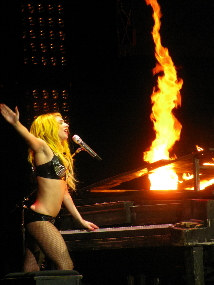 Lady Gaga performing "Speechless" on The Monster Ball Tour (Air Canada Centre in Toronto, Ontario on March 3, 2011).